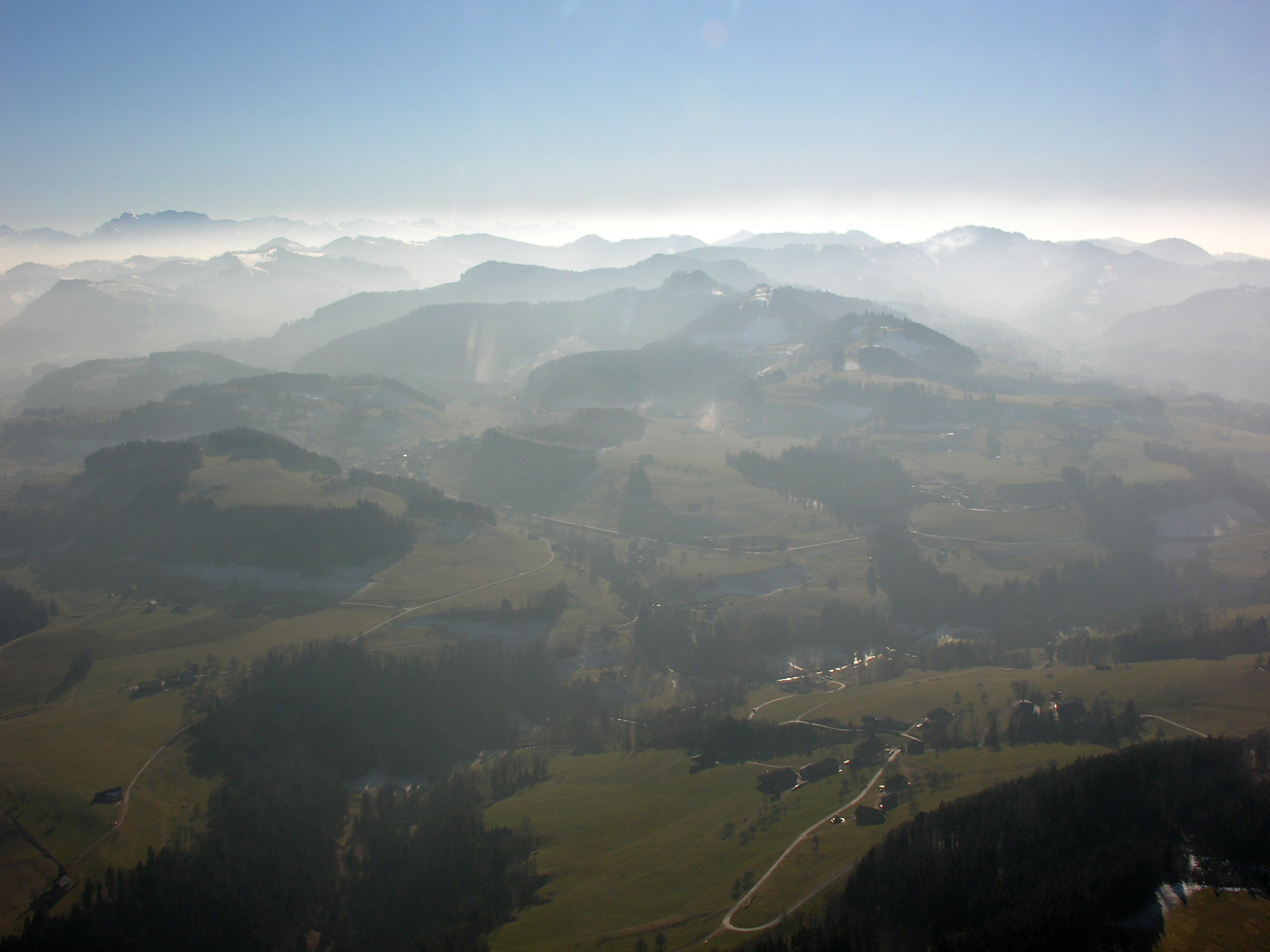 Switzerland, Canton of St. Gallen, aerial view overhead Mosnang